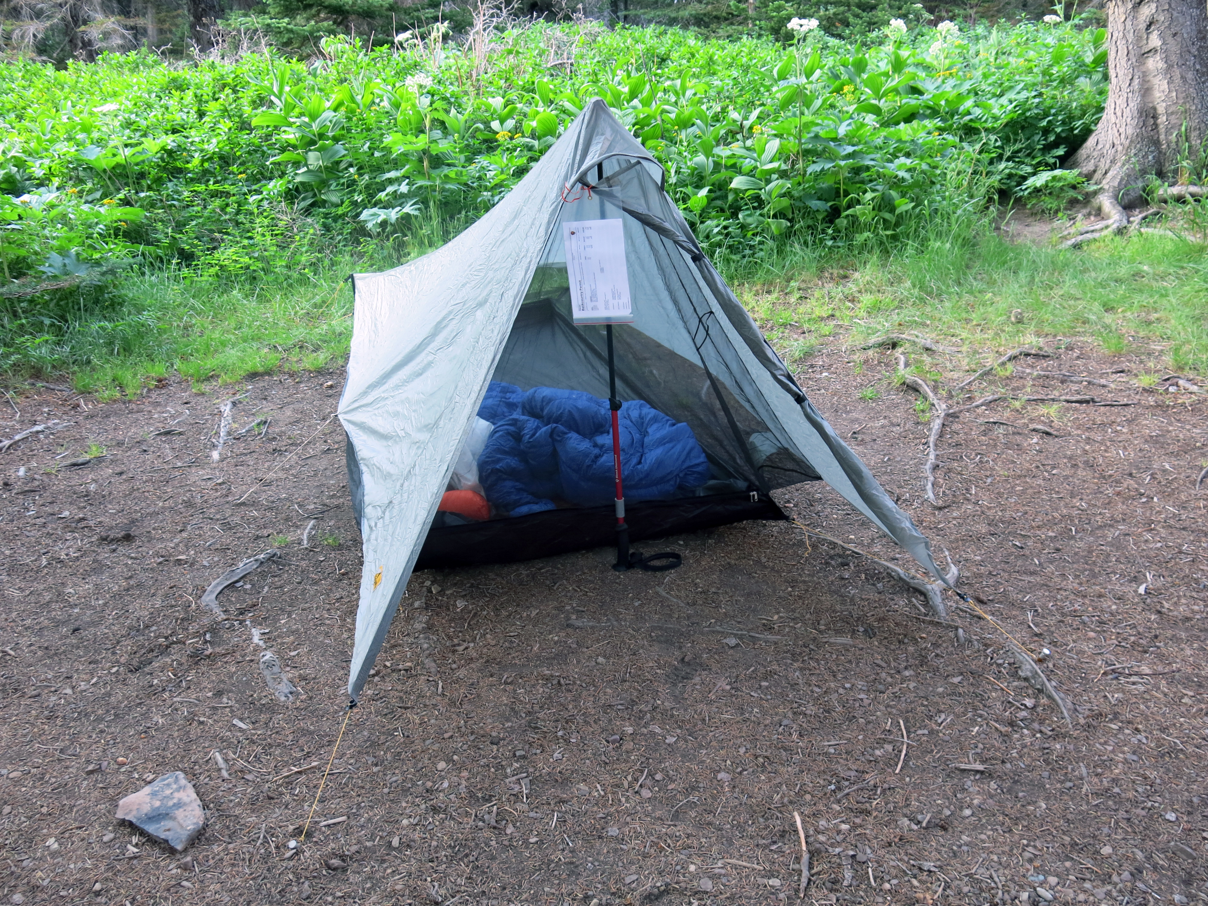 A modern tarp tent, using a trekking pole as the support structure for the tent.